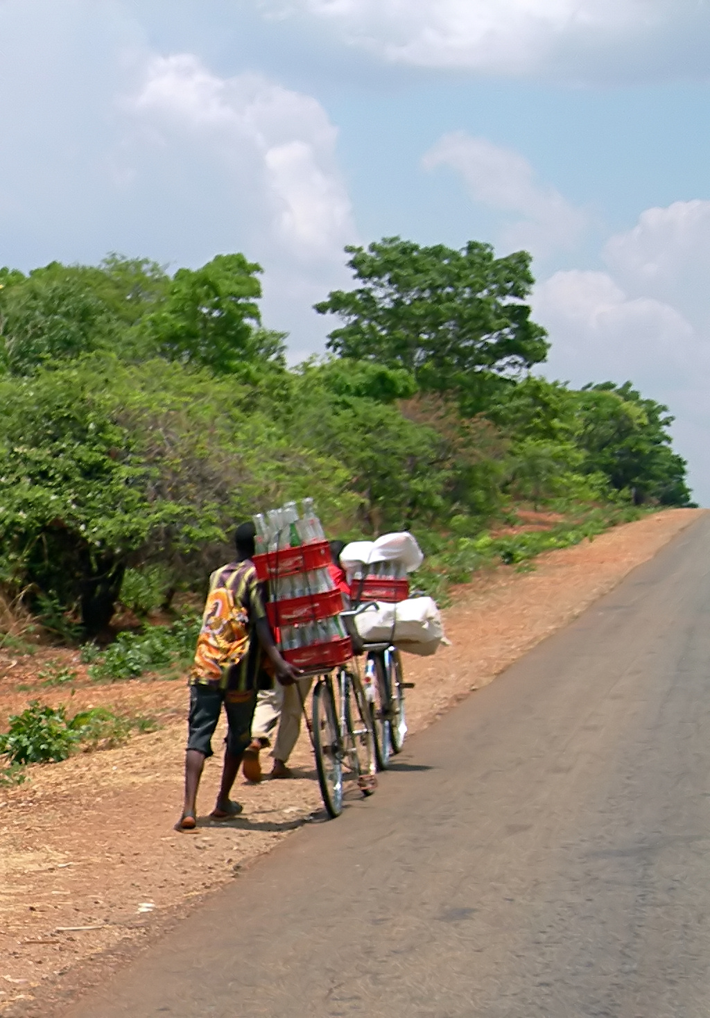 Crossbordertrade Zambia/Malawi - Locals ferry empty bottles illegally across the border to Malawi for a refund and to import superior soft drinks back to Zambia